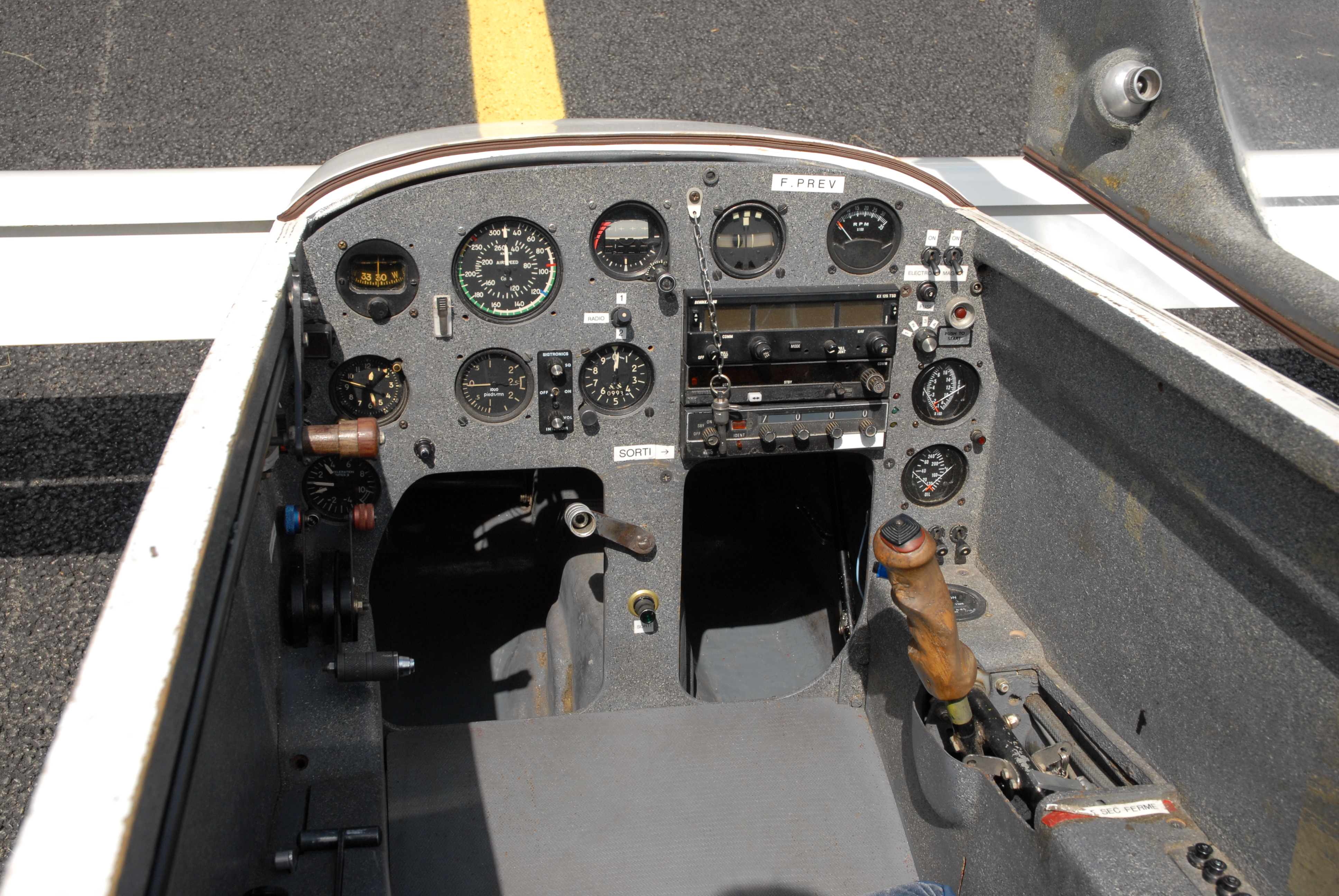 Rutan VariEzeManufacturer(homebuilt)ModelRutan VariEzeTypetourismCharacteristicscomposite, canardRegistration IDF-PREVOwnerWeber RealBased inColmar Houssen